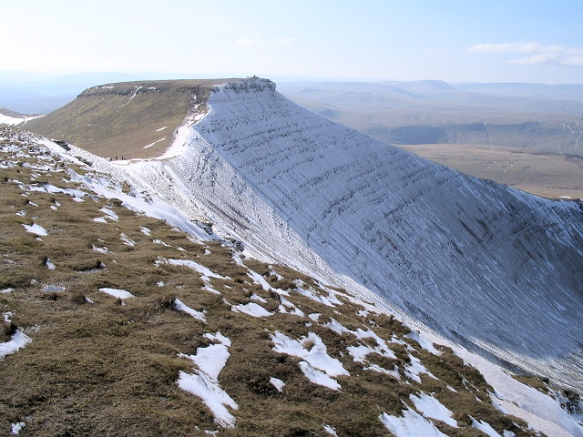 Corn Du from Pen Y Fan. This is Corn Du as seen looking west from the summit of Pen Y fan. Plenty of snow still clinging to the north face makes it look even better.